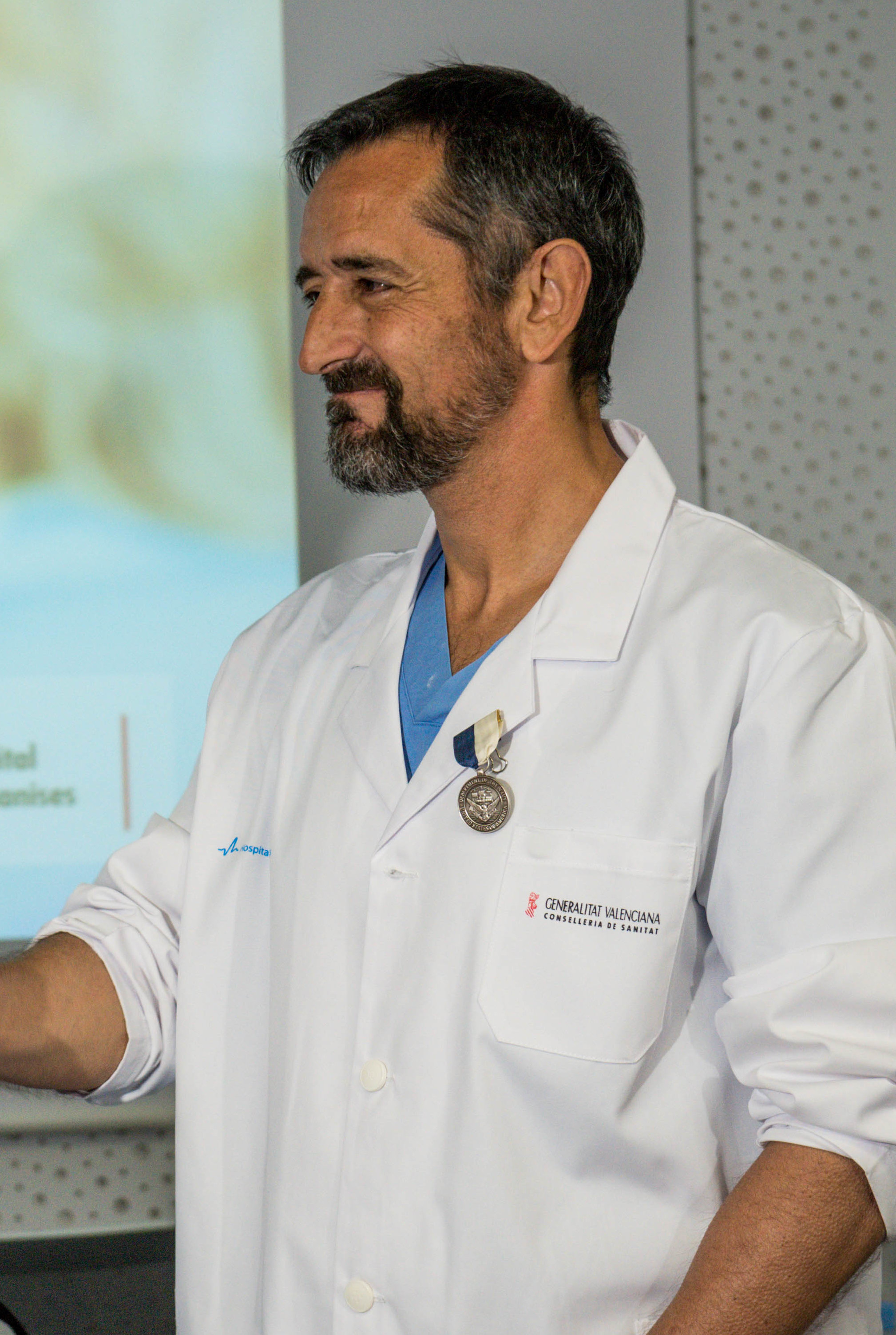 180504-N-WO404-110 VALENCIA, Spain (May 4, 2018) – Adm. James G. Foggo III, commander, U.S. Naval Forces Europe-Africa and commander, Allied Joint Force Command Naples, Italy, left, shakes the hand of Dr. Pedro Cavadas, a neurosurgeon at Hospital de Manises in Valencia, Spain, after awarding him the Civilian Meritorious Service Award at the hospital May 4, 2018. Foggo visited the hospital to present the Civilian Meritorious Service Award to Dr. Cavadas and his team for the emergency medical care of a Sailor that suffered a serious injury. U.S. Naval Forces Europe-Africa, headquartered in Naples, oversees joint and naval operations, often in concert with allied and interagency partners, to enable enduring relationships and increase vigilance and resilience in Europe and Africa. (U.S. Navy photo by Mass Communication Specialist 2nd Class Jonathan Nelson/Released)